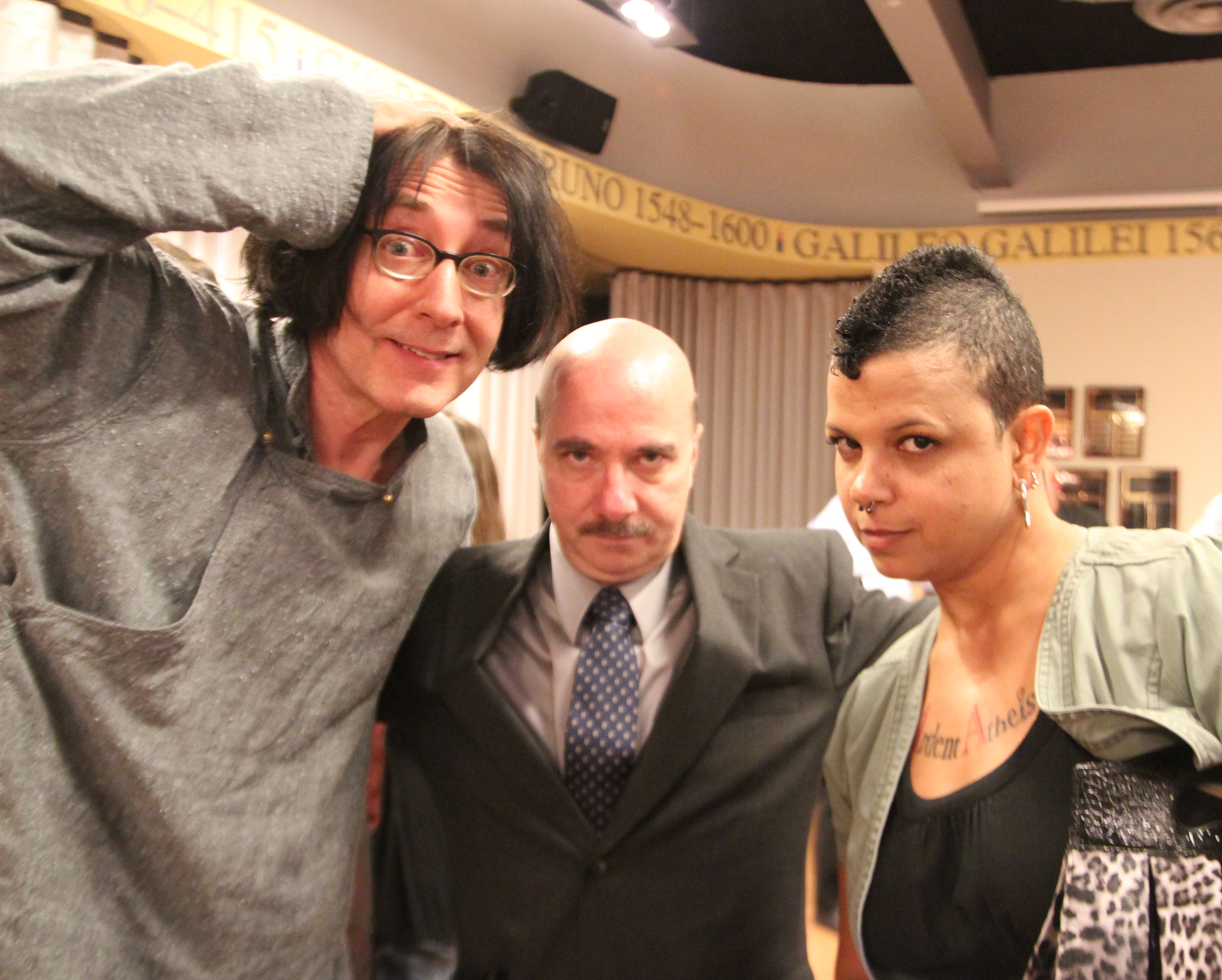 Emo Phillips, Emery Emery (dressed as Dr. Phil) and Heather Henderson at IIG Awards